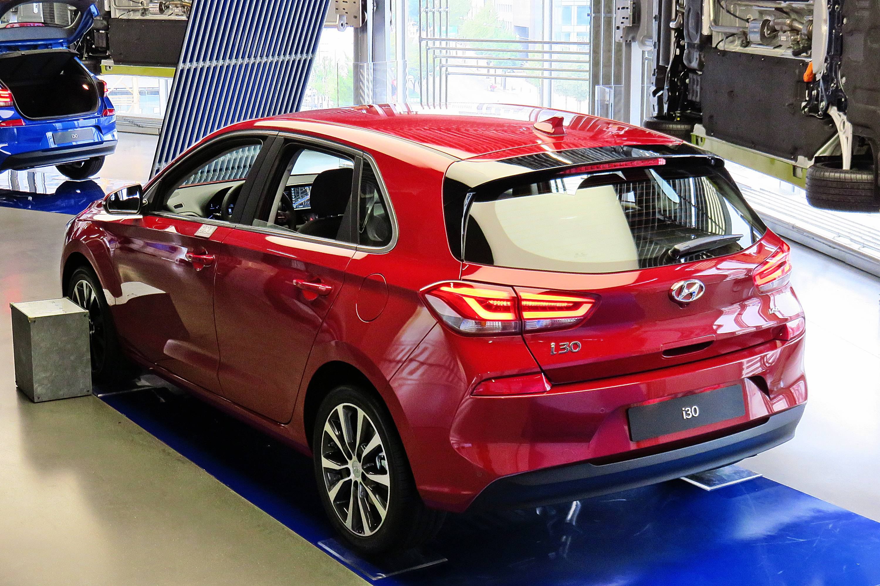 Hyundai i30(PD)